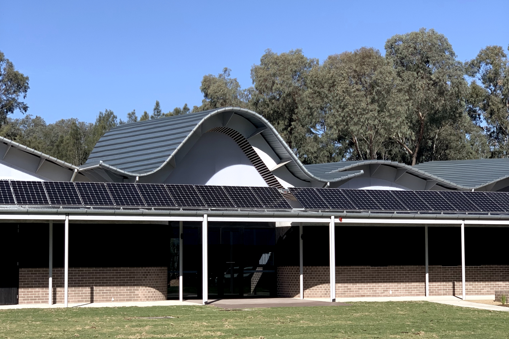 View of Woodcroft Neighbourhood Centre entry from park.